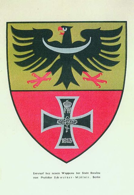 Wrocław's arms under the Third Reich 1938-1945 designed by Hans Schweitzer